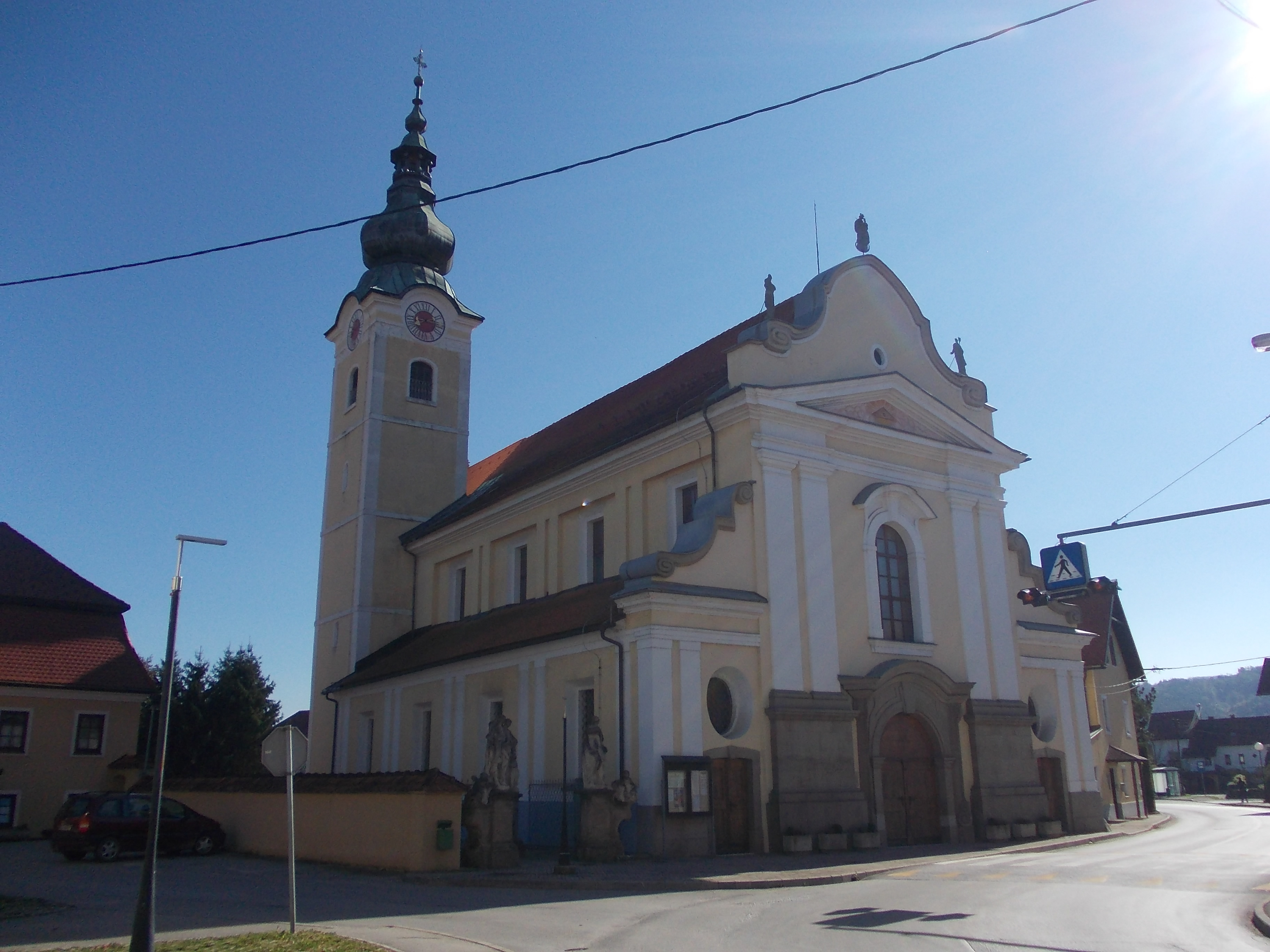 Basilica of the Visitation, Petrovče